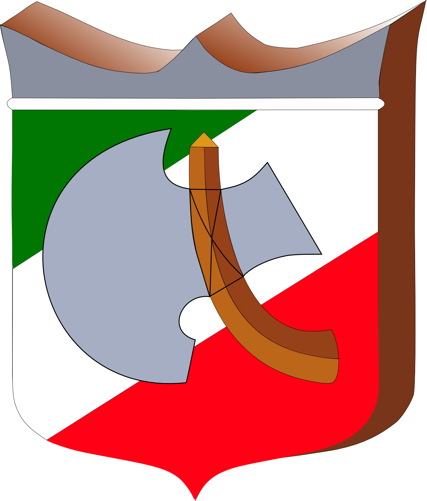 Emblem of I./JG 20